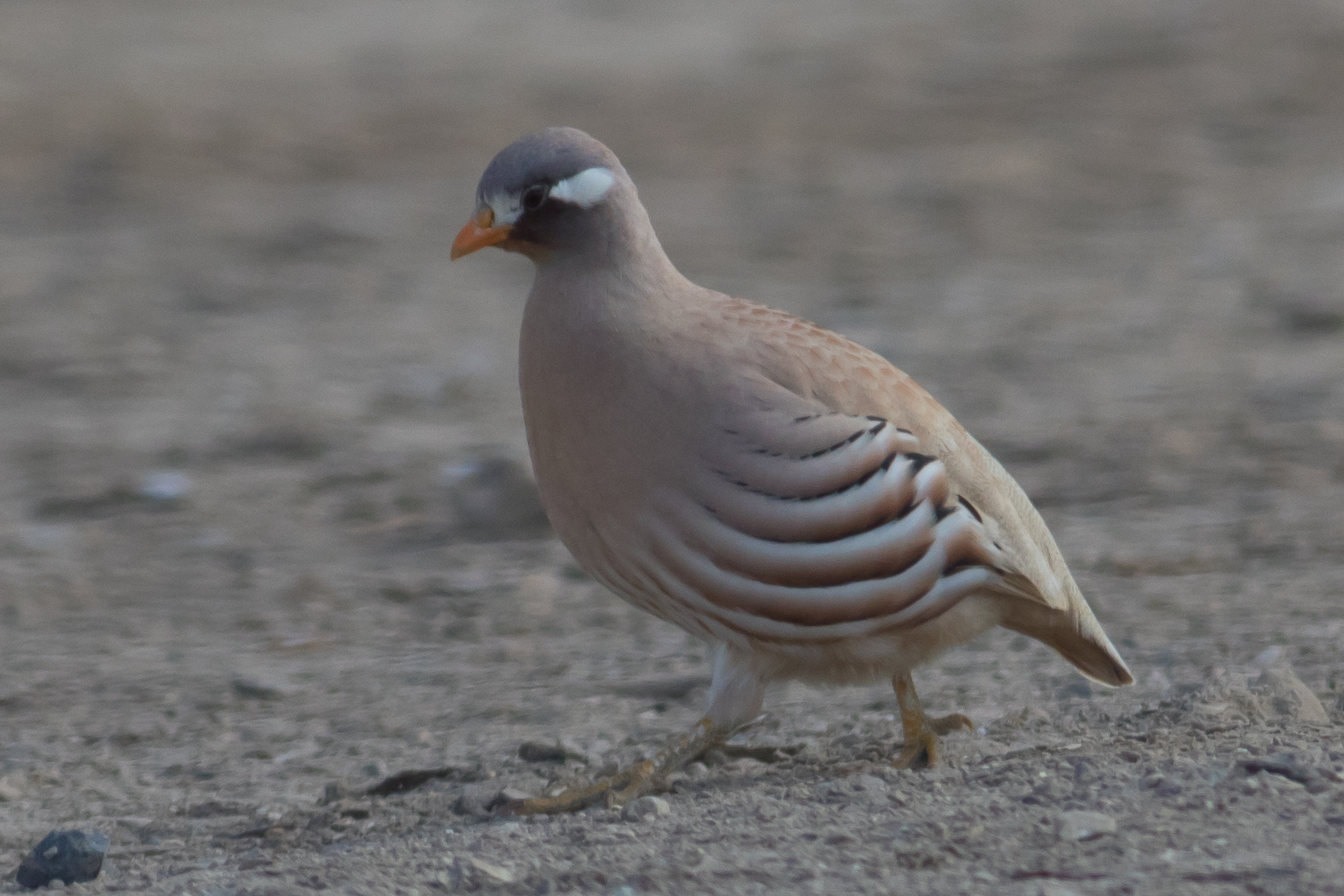 sand partridge (Ammoperdix heyi) ,photo taken next to Sde Boker, Israel.